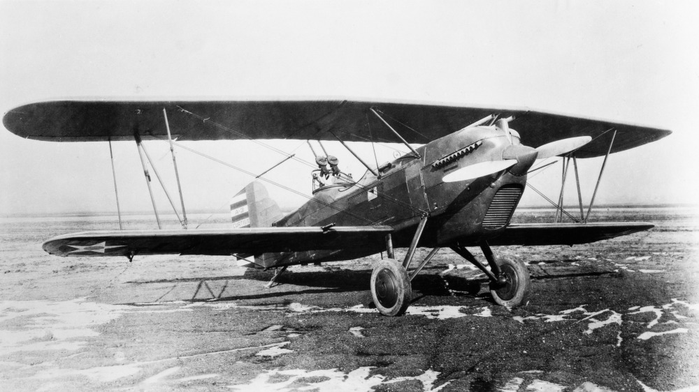 PictionID:40972392 - Title:Curtiss A-3 - Catalog:15_002736 - Filename:15_002736.tif - Image from the Charles Daniels Photo Collection album "US Army Aircraft."----PLEASE TAG this image with any information you know about it, so that we can permanently store this data with the original image file in our Digital Asset Management System.----SOURCE INSTITUTION: San Diego Air and Space Museum Archive